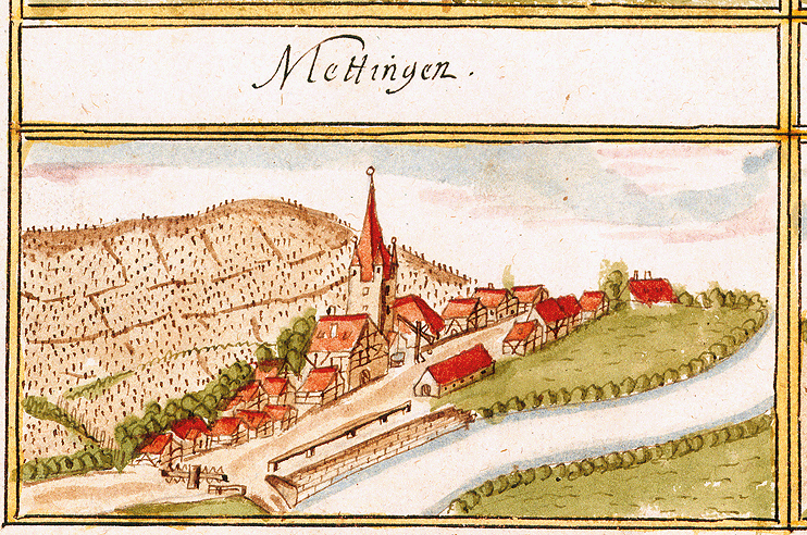 View of Mettingen, Esslingen am Neckar, from the forest register books created by Andreas Kieser